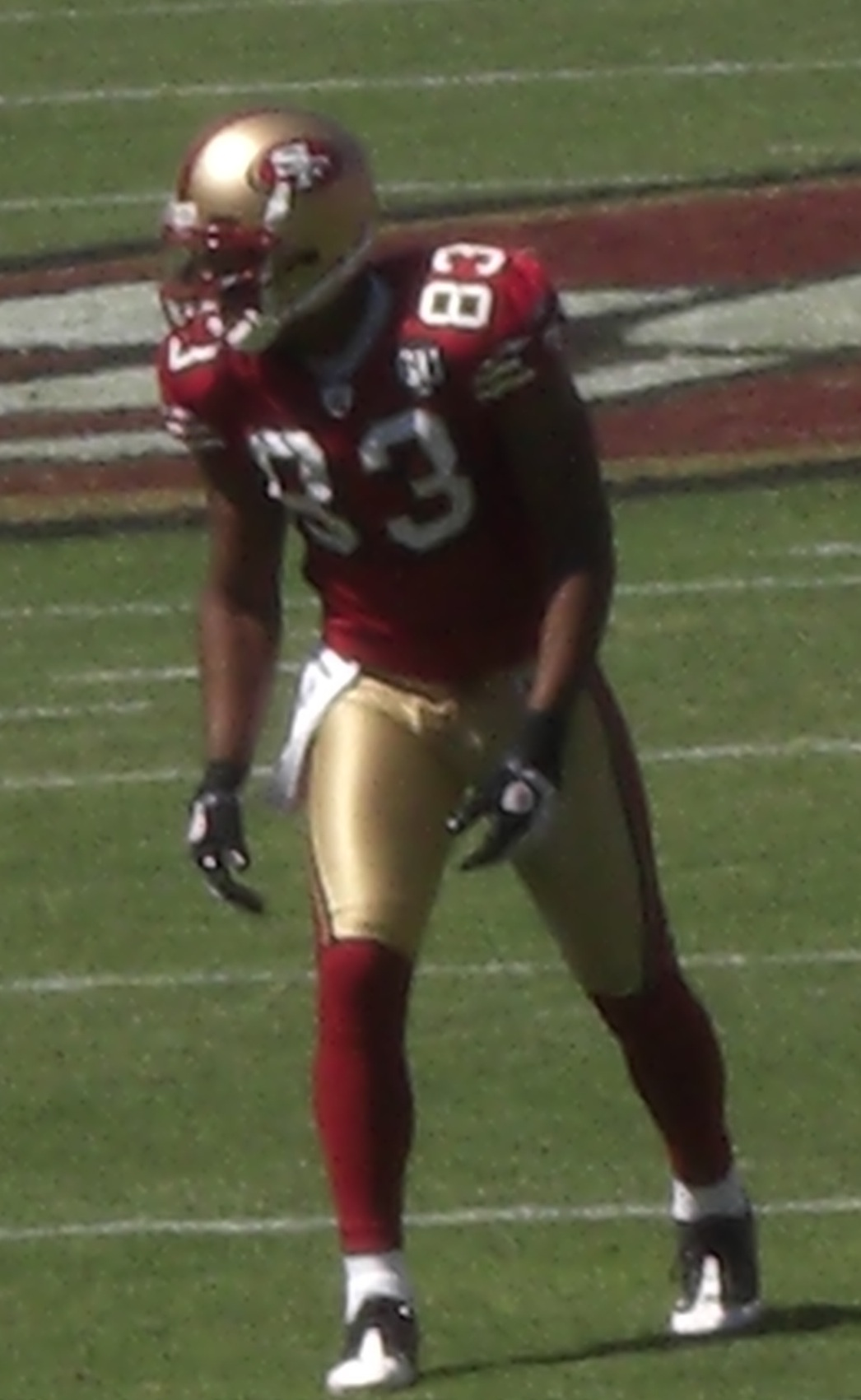 Arnaz Battle